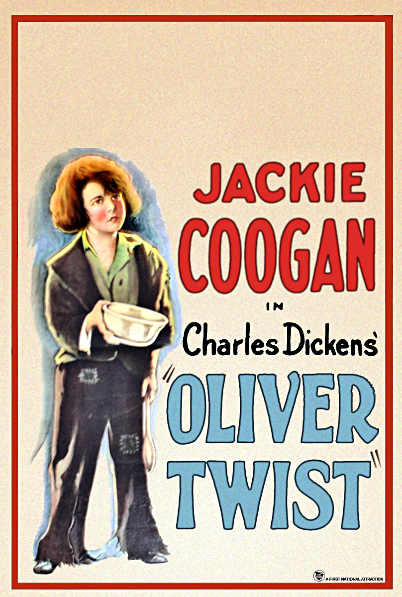 Window poster for the 1922 film Oliver Twist.